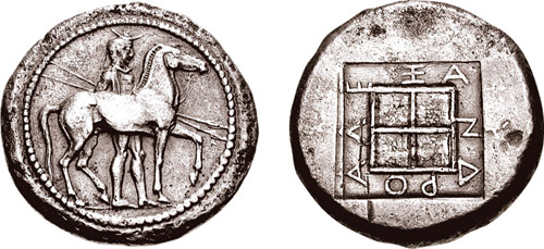 Alexander I. 498-454 BC. AR Oktadrachm. Struck circa 465-460 BCE. Horseman, wearing chlamys and petasos, and holding two spears, leading horse right; crescent behind horseman's head / ΑΛΕ-ΞΑ-ΝΔ-ΡΟ around quadripartite square, all within larger incuse square